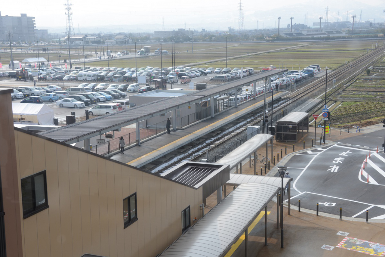 The ground-level Johana Line platform at Shin-Takaoka Station viewed from above